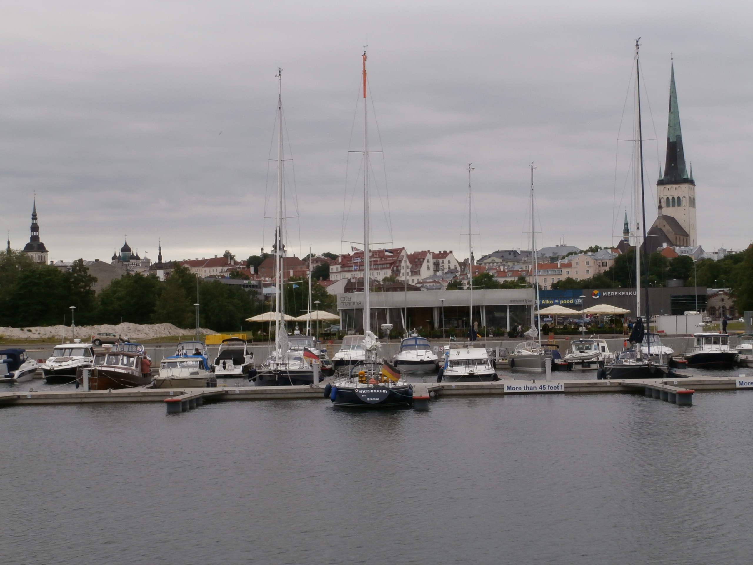 Sailing yacht Shenandoah port of registry : Bremen in Tallinn 20 June 2013